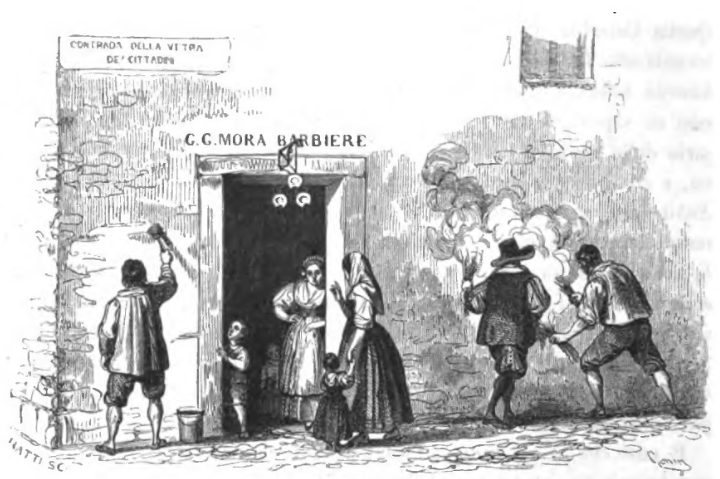 The most famous Italian historical romance,and the masterpiece of Alessandro Manzoni.